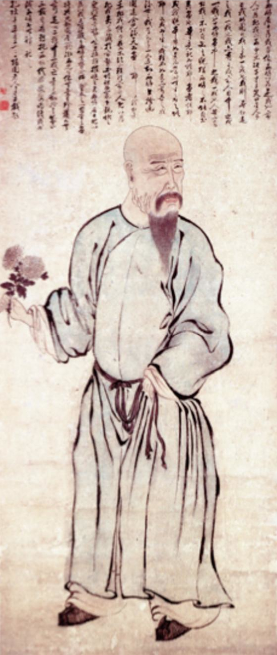 Portrait of the Chineſe Poet Yuán Méi (袁枚), painted by Luó Pìng (羅聘).